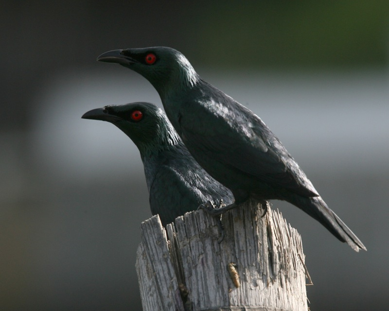 Taken at Changi Village, Singapore, with a Canon EOS-1D Mark II N.